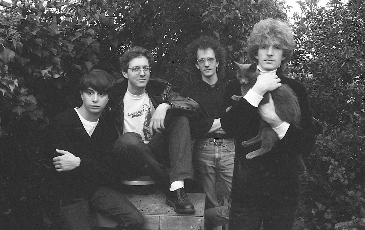 Game Theory's final touring line-up, 1989, in Albany, California. Left to right: Michael Quercio, Jozef Becker, Gil Ray, Scott Miller.